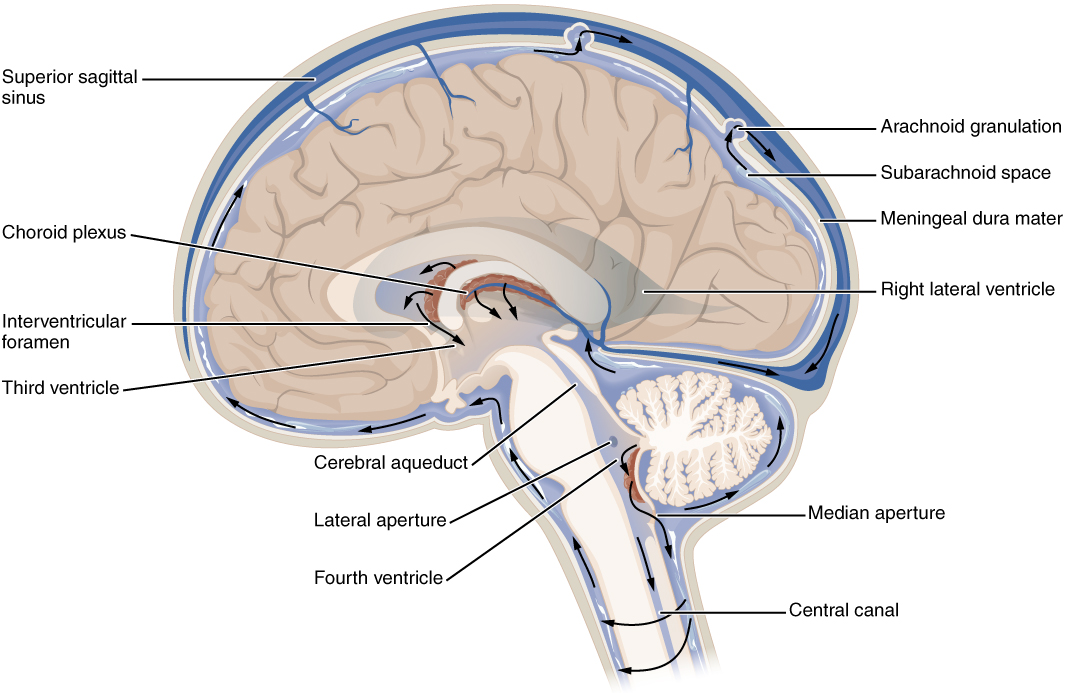 Version 8.25 from the Textbook OpenStax Anatomy and Physiology Published May 18, 2016